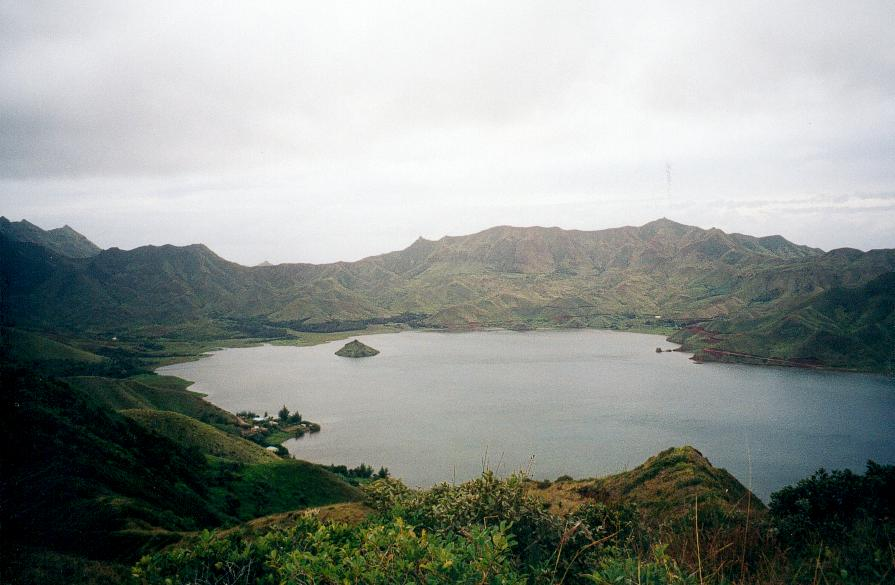 Ahurei Bay and Tapui Islet, Rapa, Austral Islands, French Polynesia